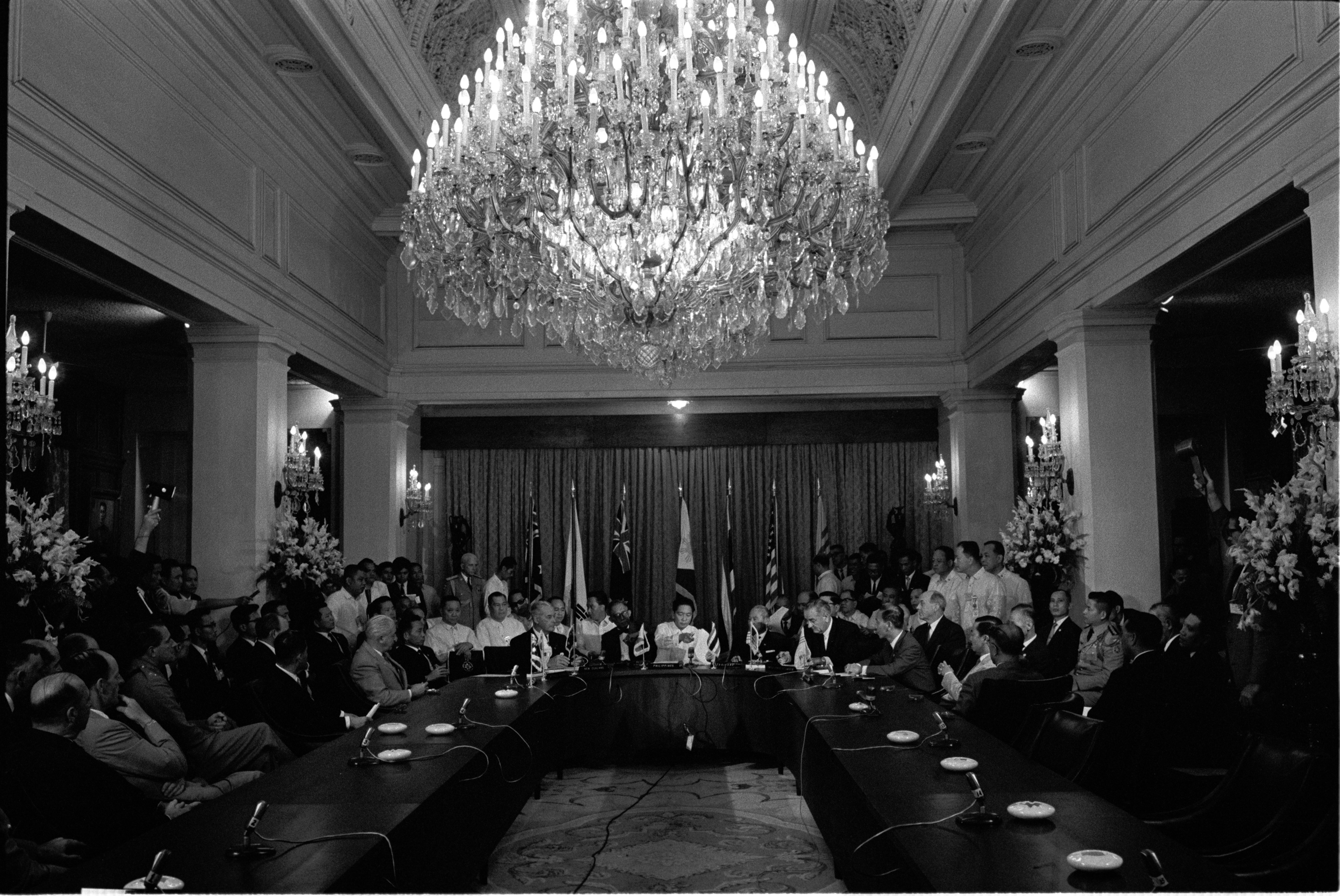 President Marcos presiding over a meeting during the Manila Conference of SEATO nations on the Vietnam War, at the Malacanang Palace, Manila, Philippines. Various leaders of SEATO nations are seated at the conference table, including Lyndon B. Johnson of the United States.